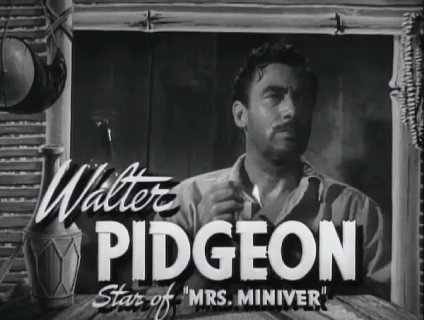 Walter Pidgeon in White Cargo (1942), by Richard Thorpe (1942)